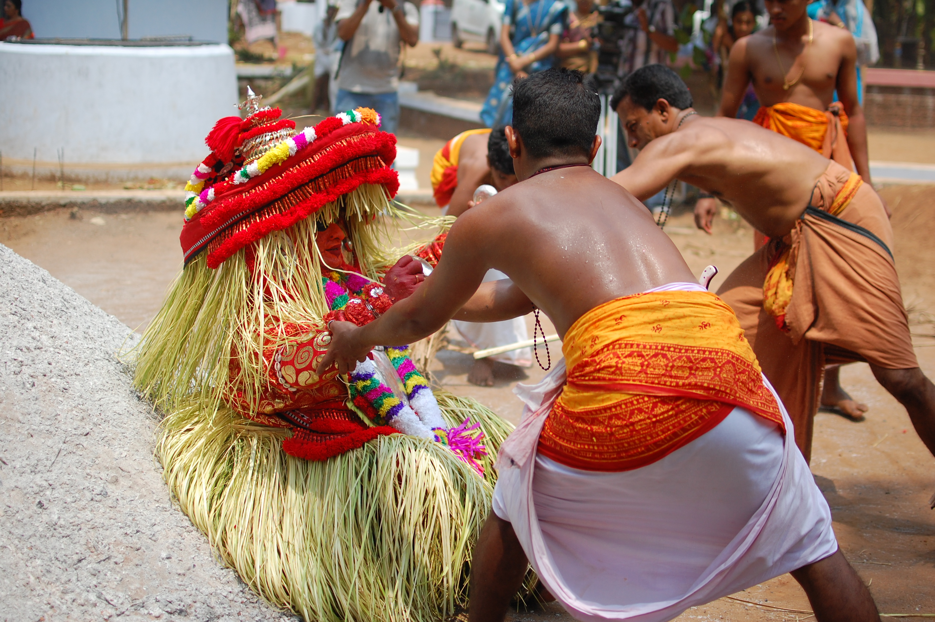 Uchitta theyyam